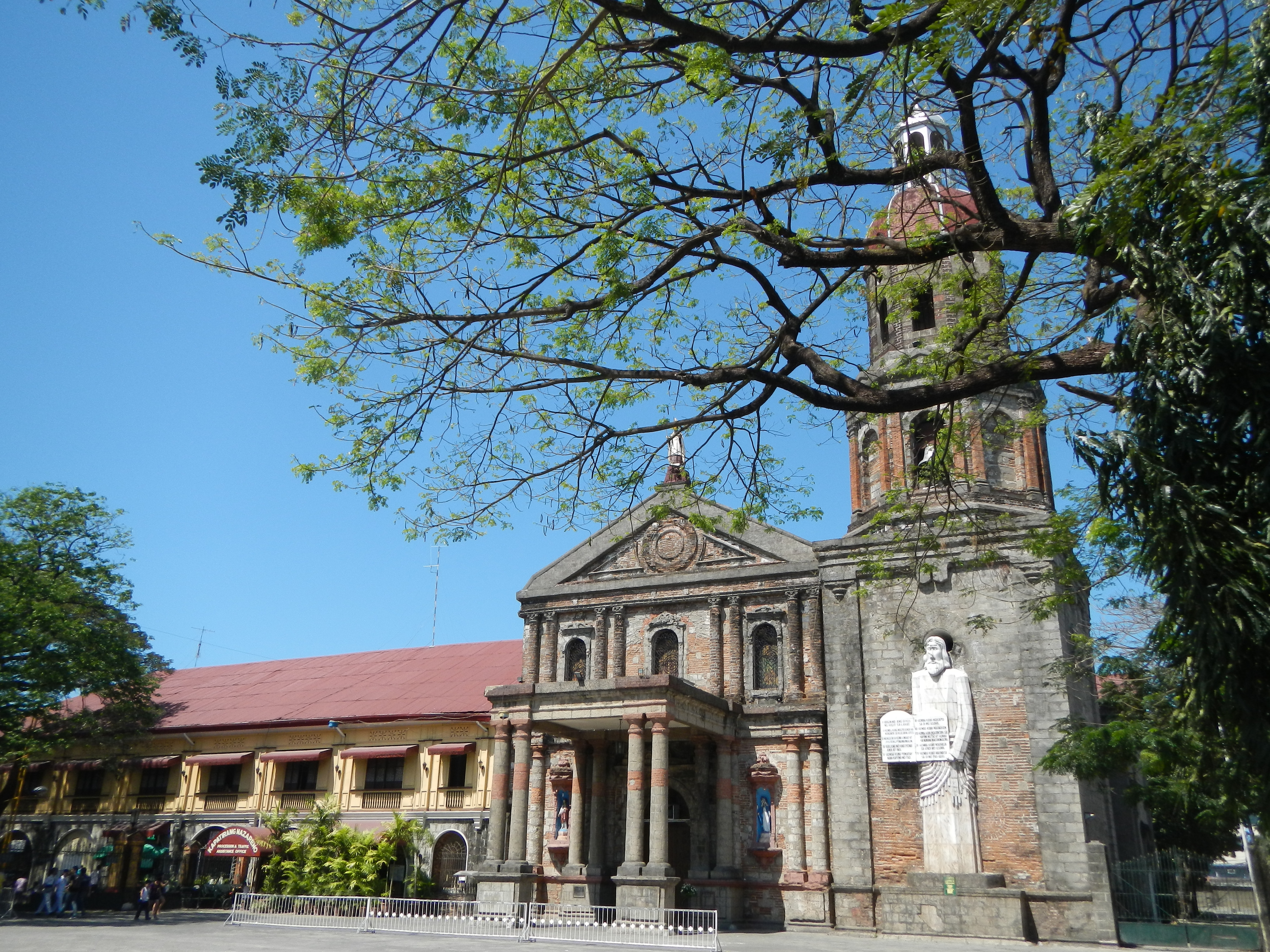 1733 St. Augustine Parish Church of Baliuag (Saint Agustin of Hippo Parish Church)[1][2][3]Baliuag, Bulacan[4]